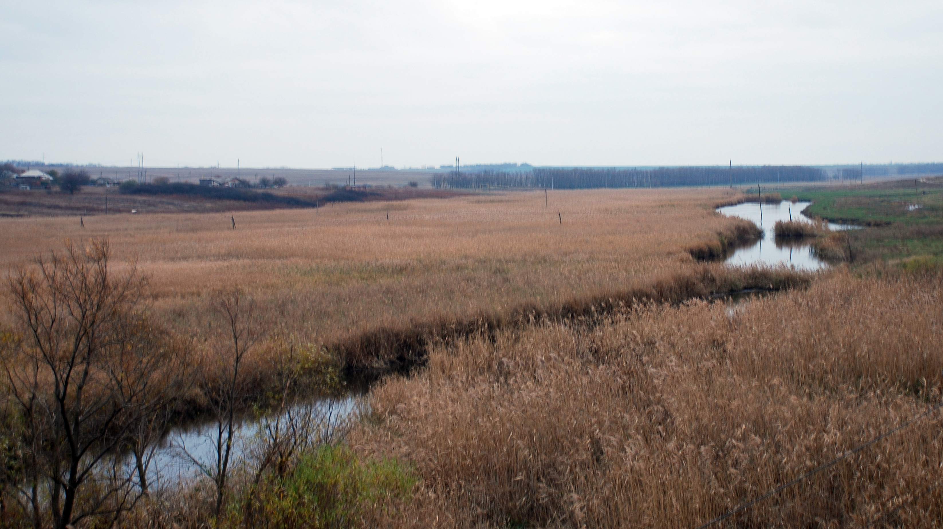 Sambek River in Sambek.